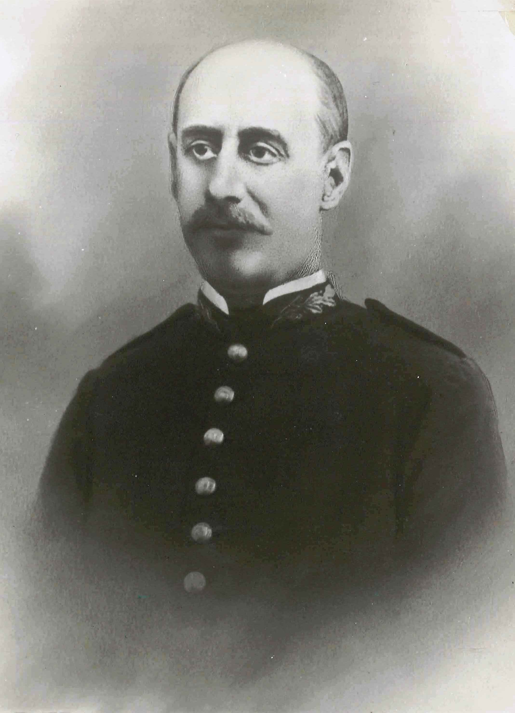 Victor Martínez Jiménez